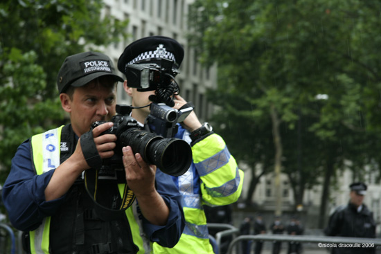 Lebanon war protest march, London, 22 July 2006